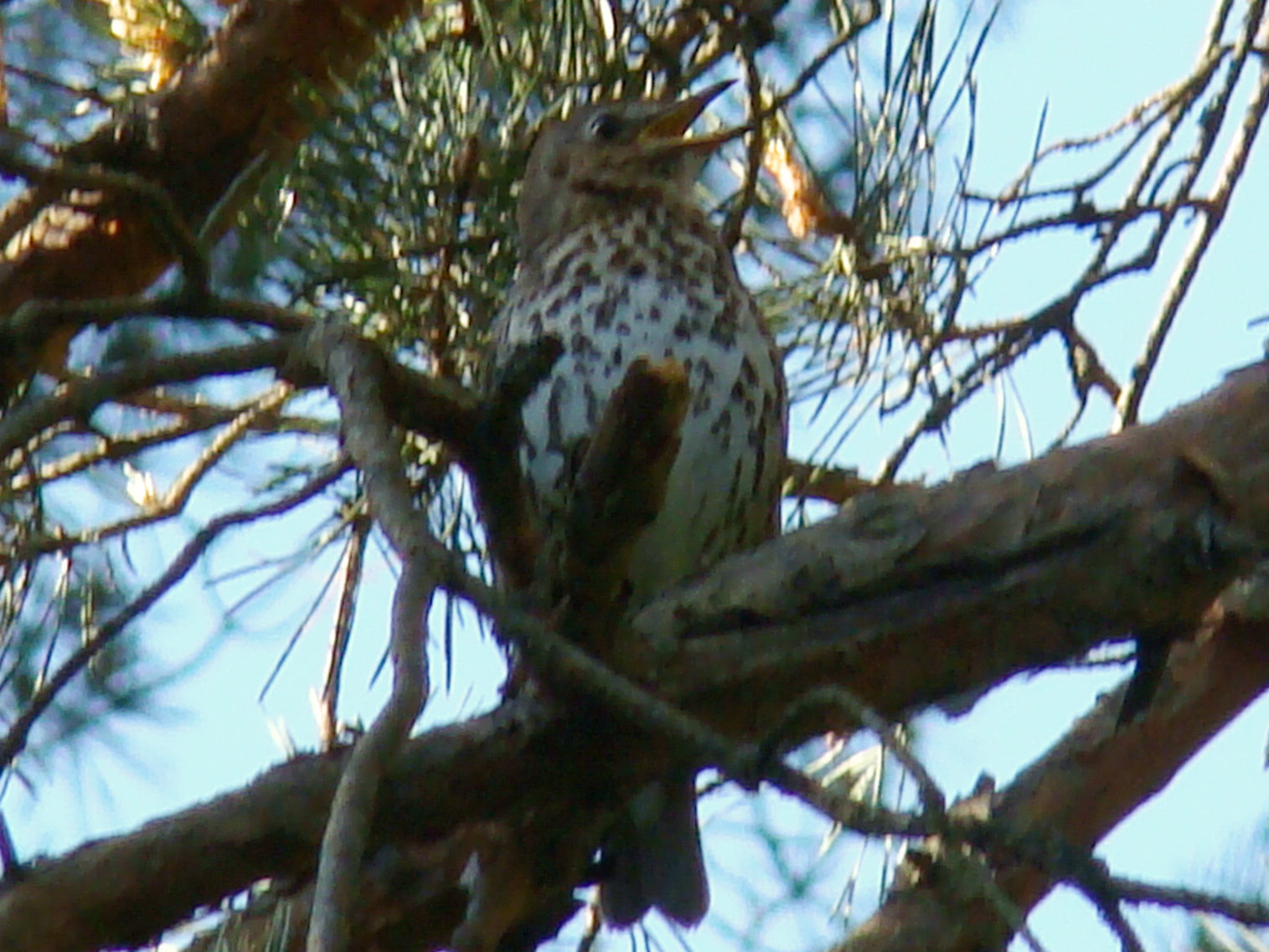 Photo of the Song Thrush (Turdus philomelos) in in Vingis park, Vilnius, Lithuania.